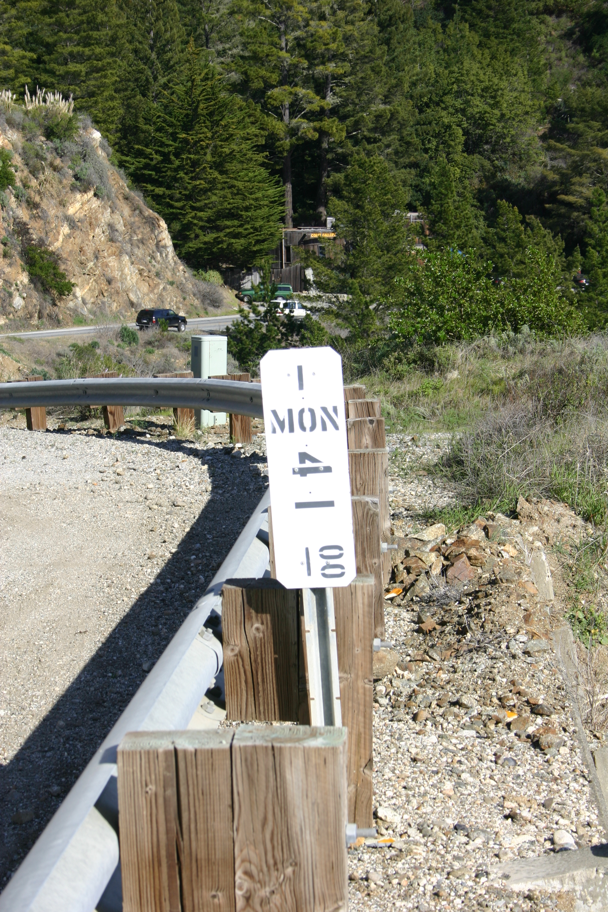 A typical postmile marker found along California highways. This is along California Highway 1 in Monterey County near Big Sur. Photo by Wxstorm.